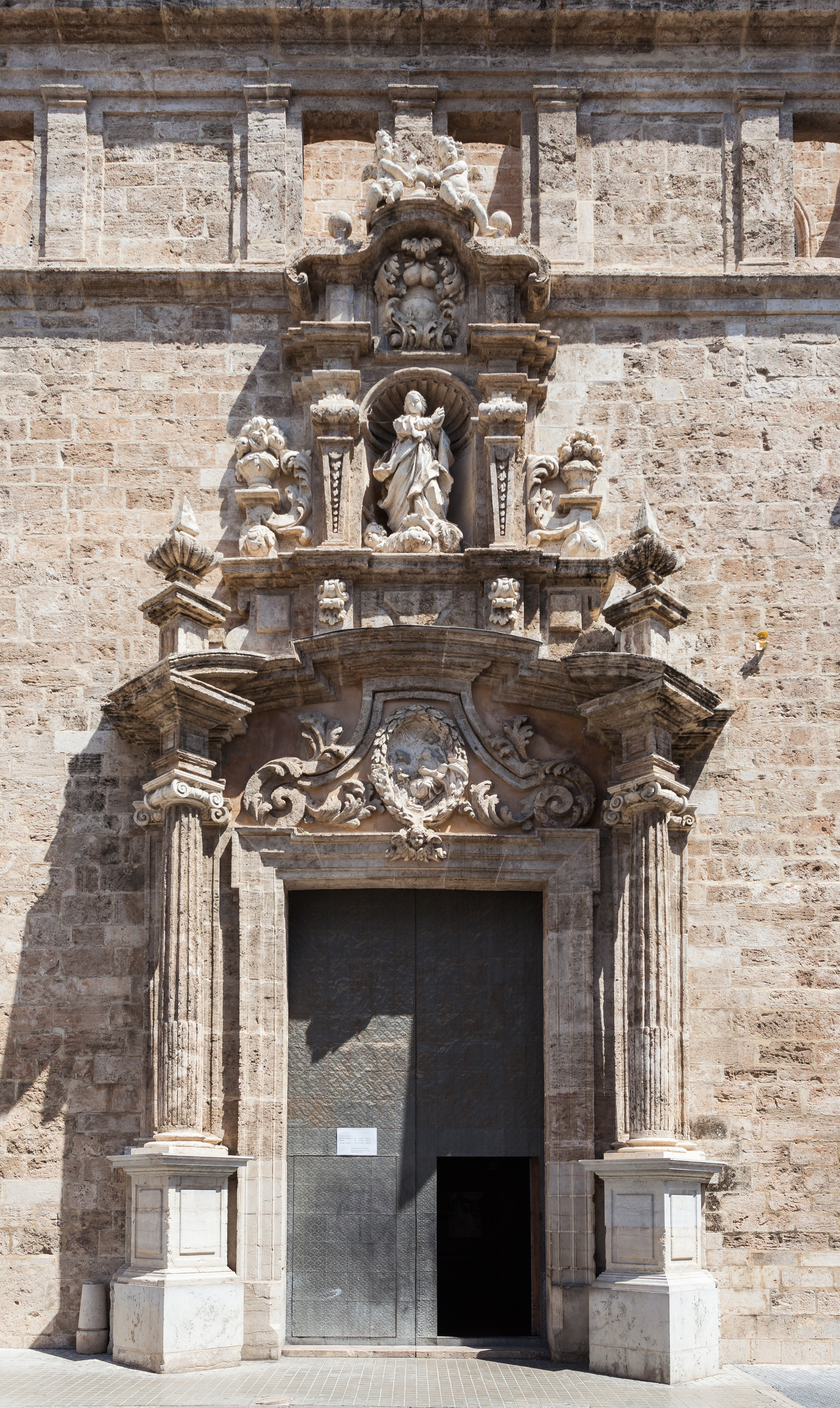 Juanes church, Valencia, Spain